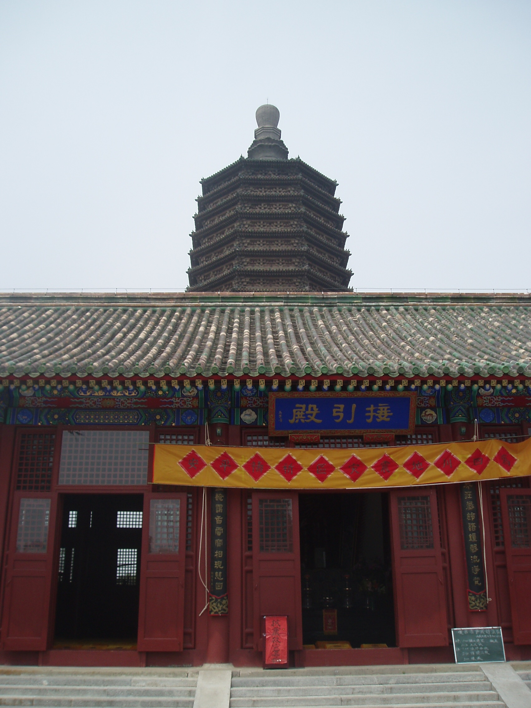 Looking north